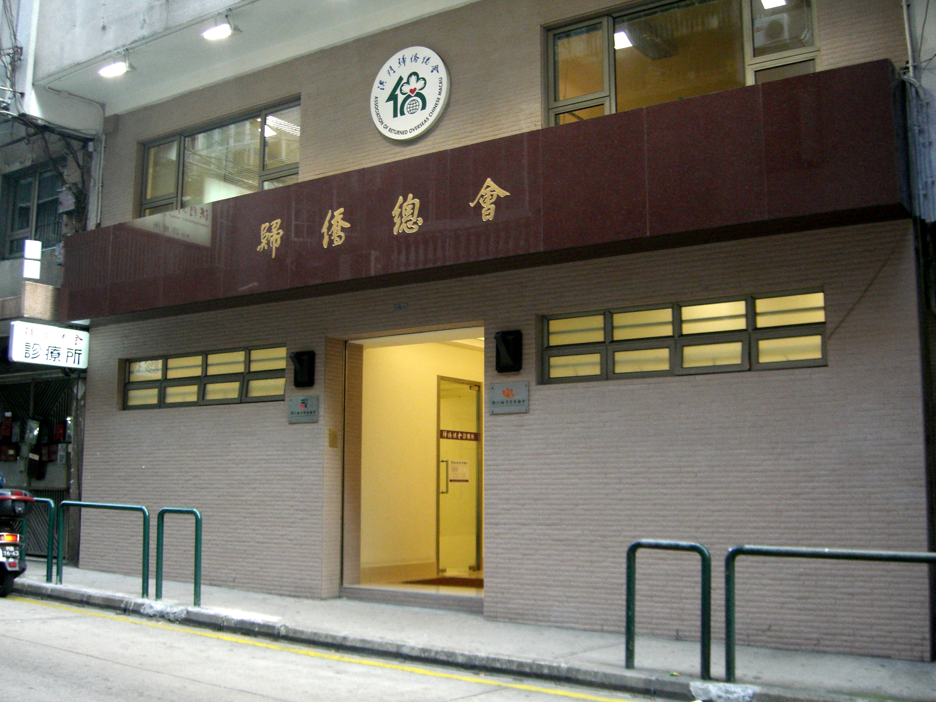 Association of Returned Overseas Chinese Macau